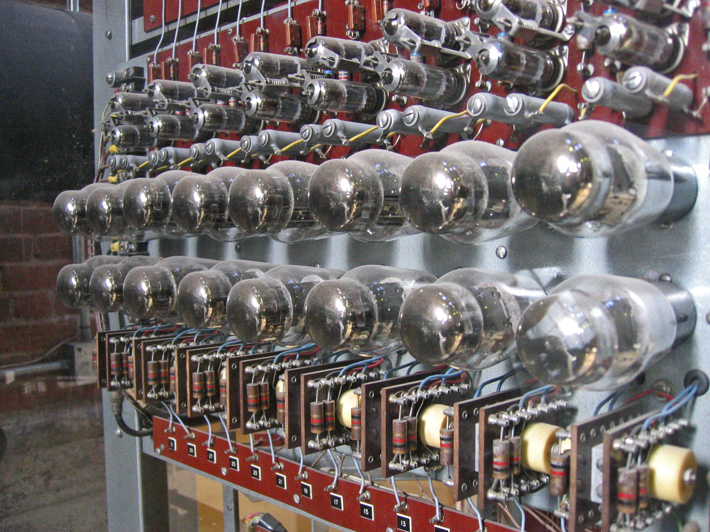 Circuitry from Project Whirlwind's core memory unit, as displayed at the Charles River Museum of Industry, Waltham, MA. The rack is labeled "Bank C, Side 4."